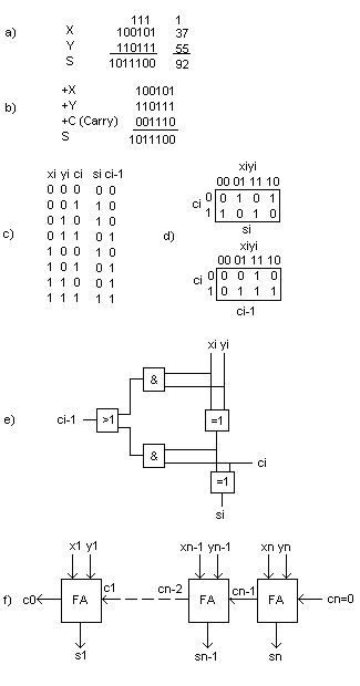 Full Adder